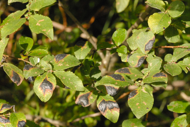 Rhytisma salicinum from Commanster, Belgium. The determination of the species shown in this picture has been verified.